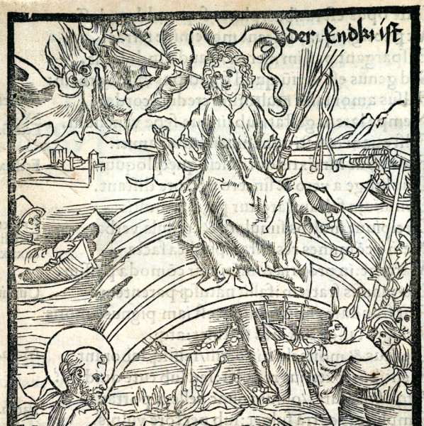 This woodcut is attributed to the artist Albrecht Dürer. It is an illustration from the book Stultifera navis (Ship of Fools) by Sebastian Brant, published by Johann Bergmann in Basel in 1498.